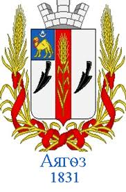 Coat of arms for Ayagoz, Kazakhstan